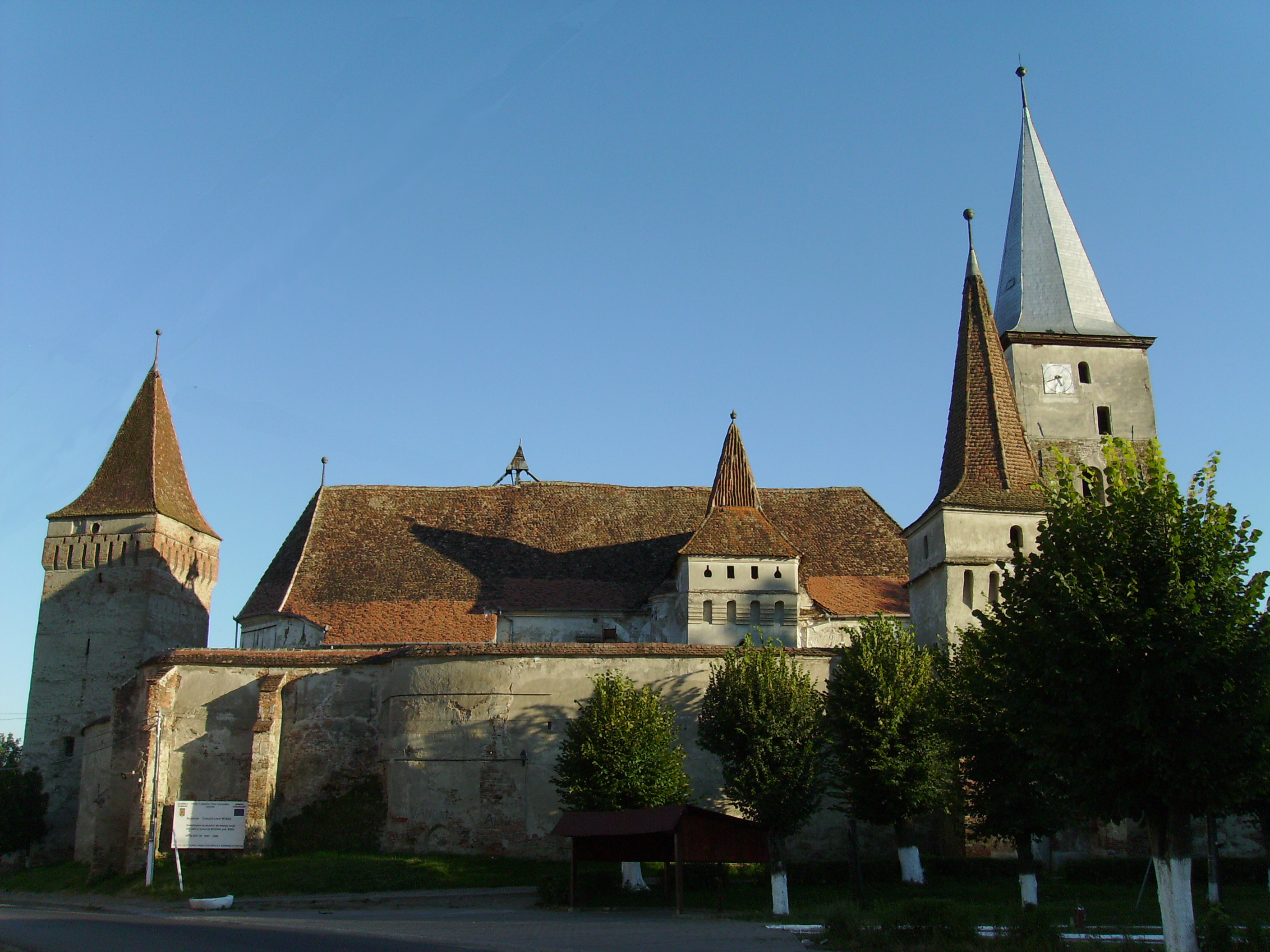 Mosna fortified church, Transilvania, Romania.